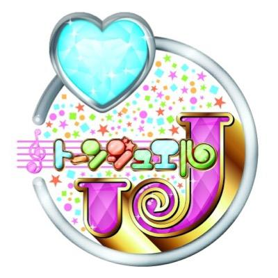 TJ(Tone Jewel)'s Logo Mark